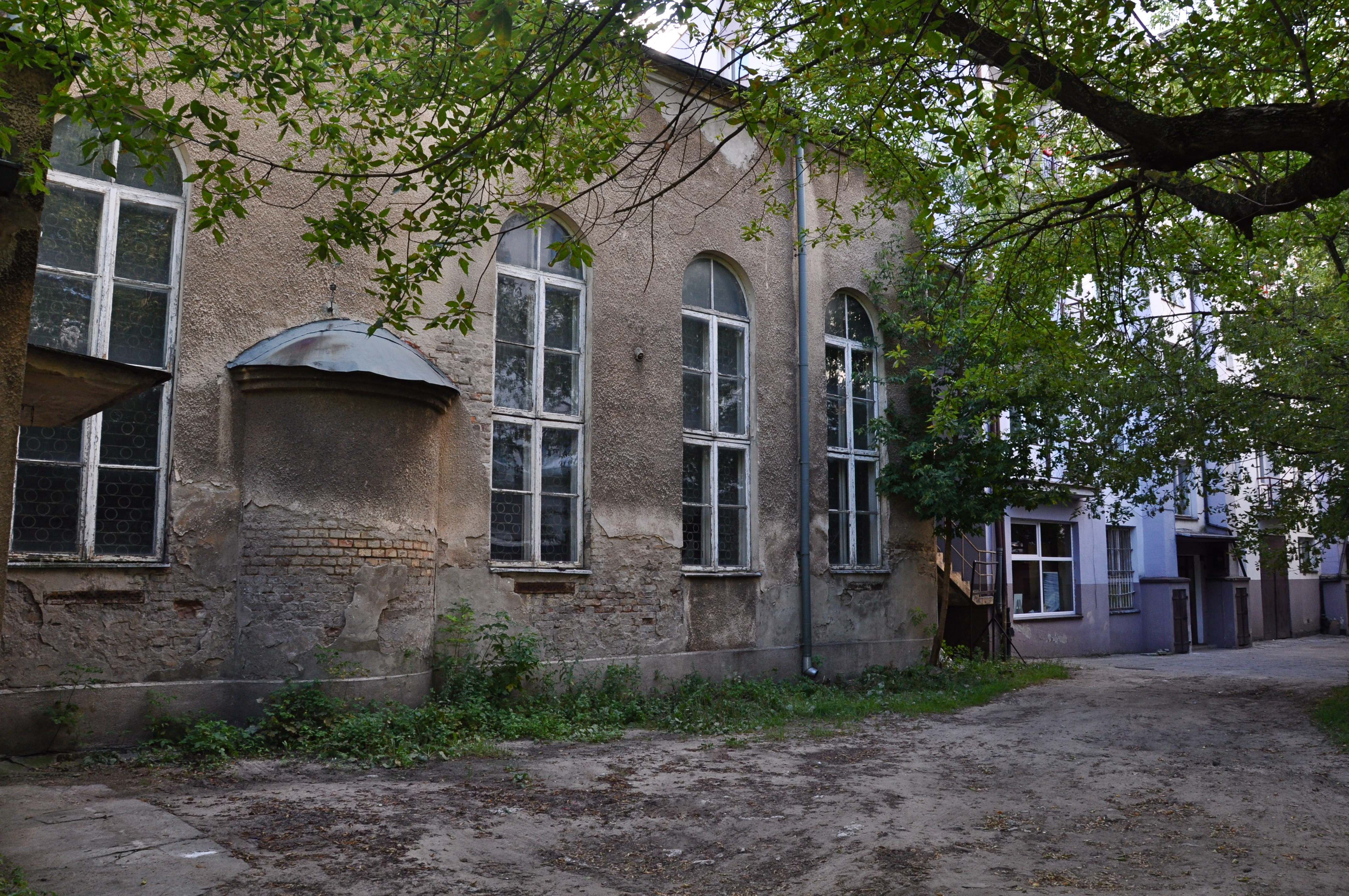 A building of former Beit Shmuel Synagogue in Bialystok (Poland) which now is used by Hetman Sports Club. This is a backyard view on the east wall of the building with preserved original windows and apse (on the left side of the photo) that was ment for Aron ha-kodesh. The building is one of the sites on Jewish Heritage Trail in Bialystok.